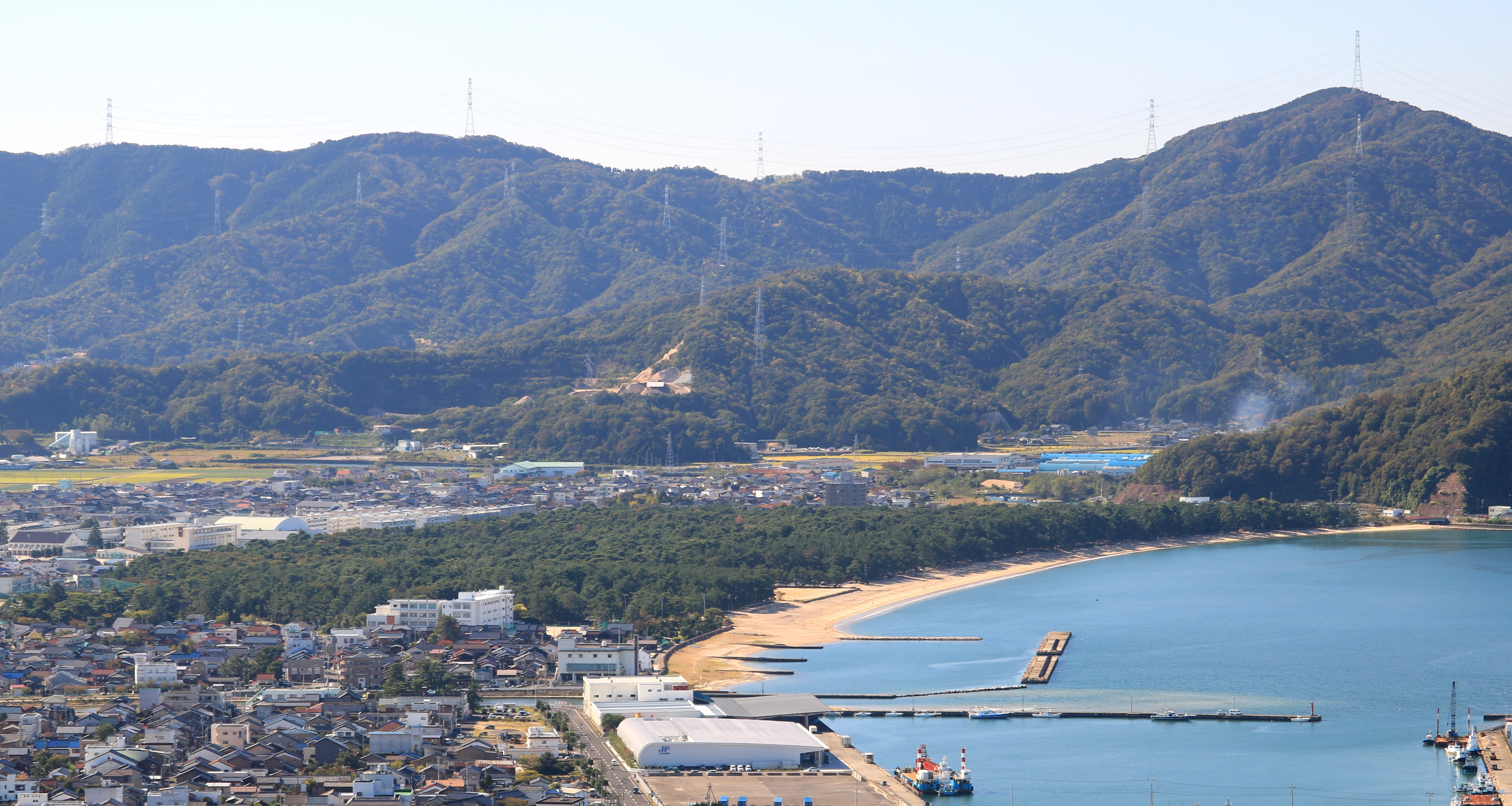 Kehi-matsubara and Port of Tsuruga seen from Mount Tezutsu in Tsuruga, Fukui prefecture, Japan.